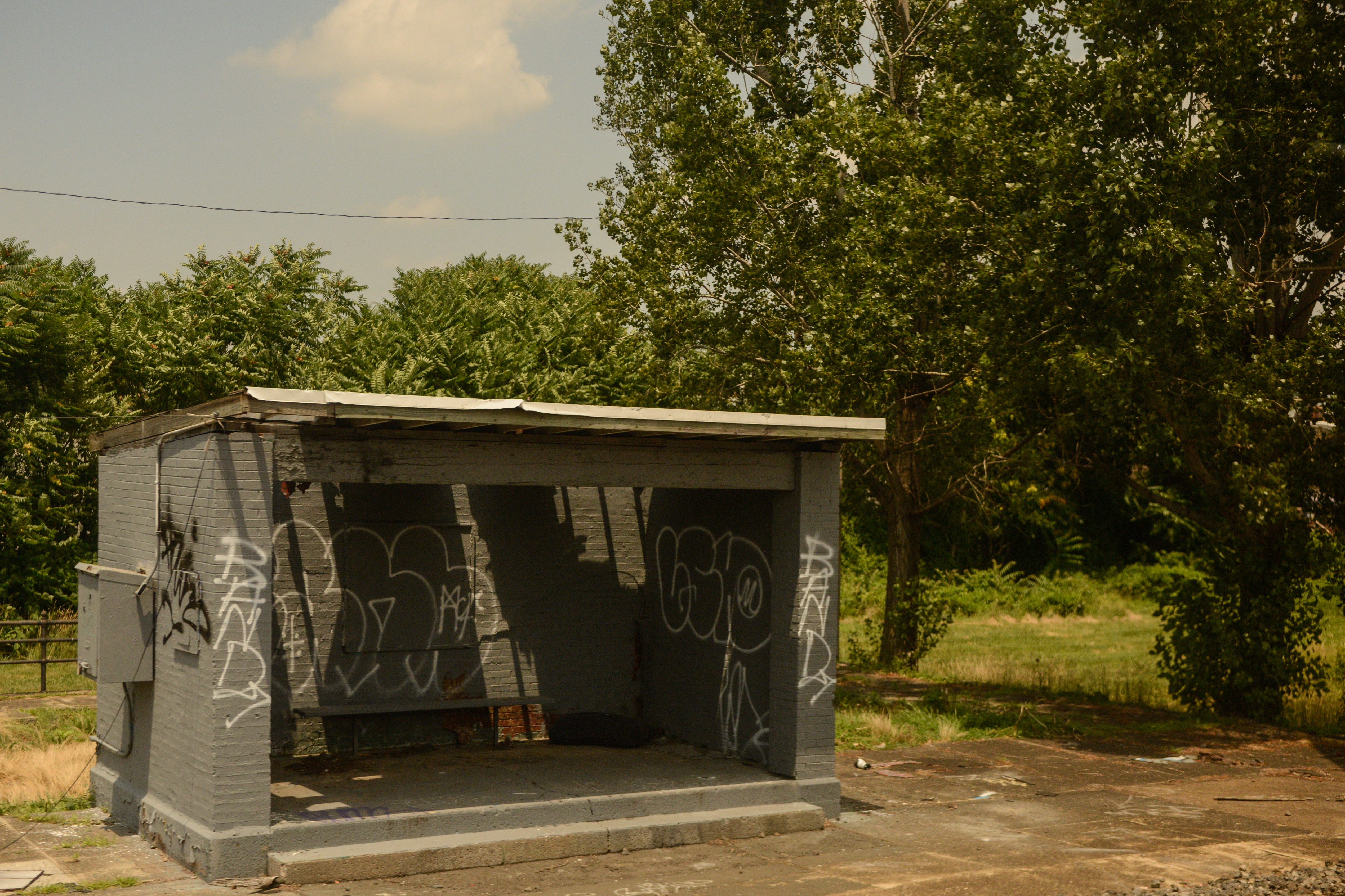 Shelter at the former Wissinoming station, closed in 2003, photographed in July 2014